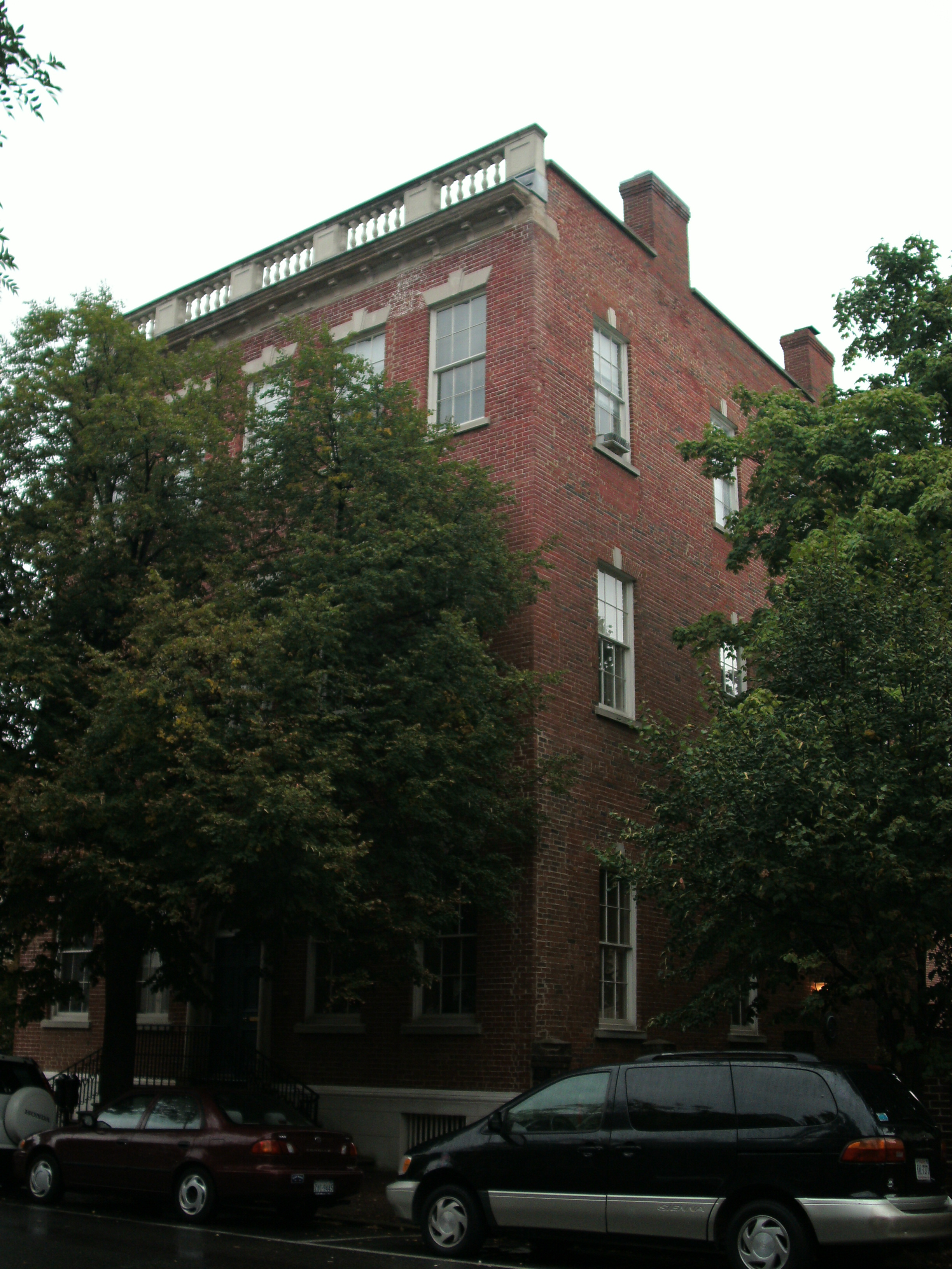 Alexandria, VA, September 2009 GEDSC DIGITAL CAMERA